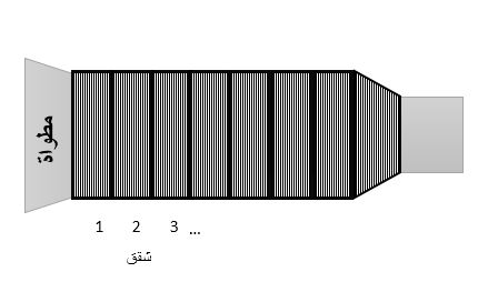 شكل توضيحي